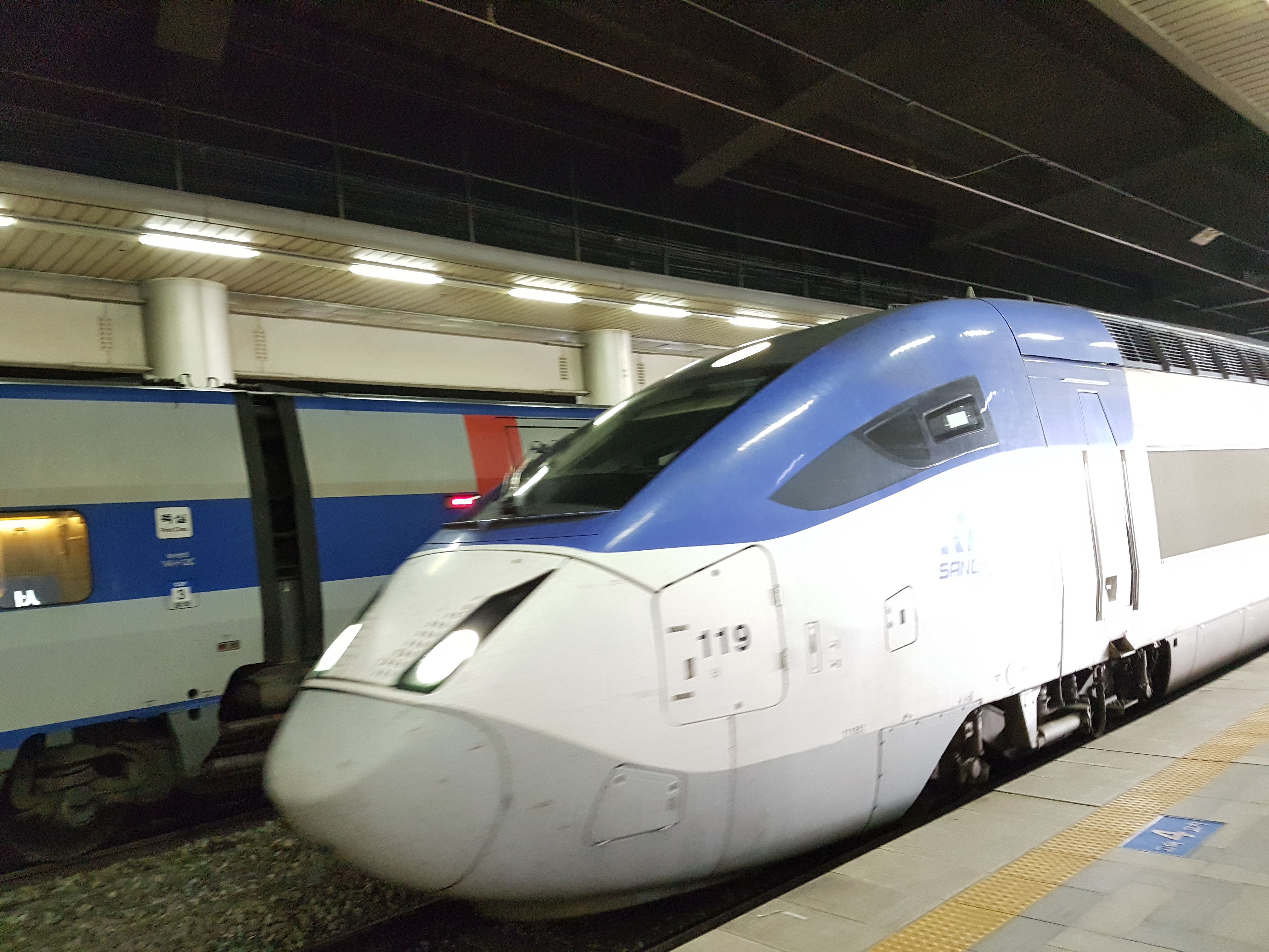 KTX standing on seoul station